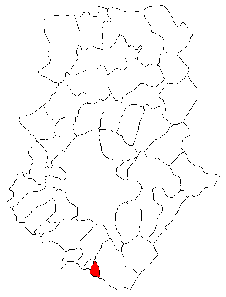 Location map of Copaceni Commune in Ilfov County, Romania